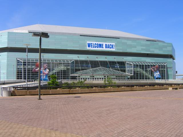 New Orleans Arena back open after Hurricane Katrina. Photo by Nick22aku